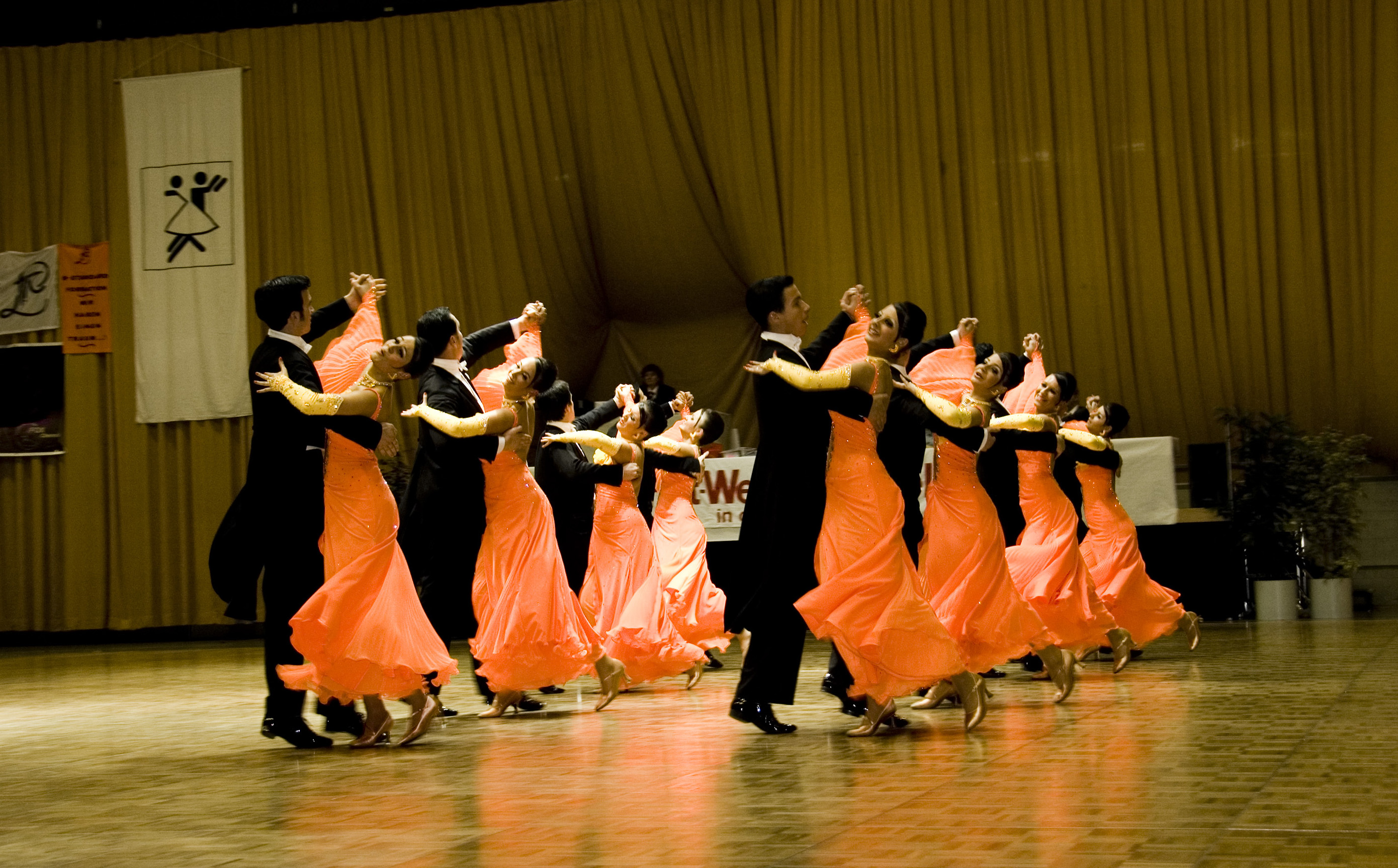 A tournament of the second nation league of Ballroom Standard-Formations in Ruesselsheim, Germany, 20.02.2009; the picture shows the B-Team of the 1. TC Ludwigsburg.